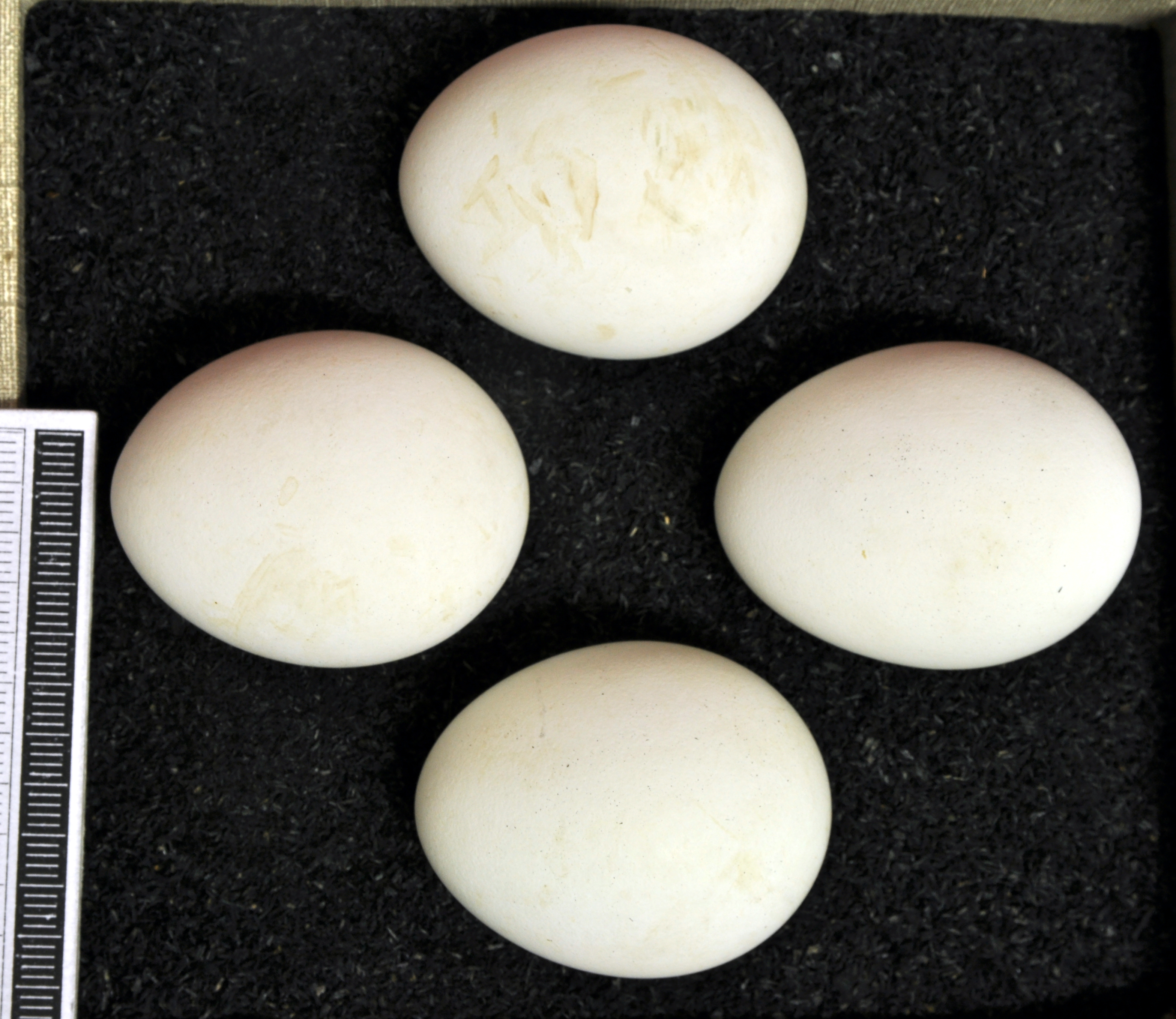 Hen harrier Circus cyaneus , egg, Coll. Museum Wiesbaden